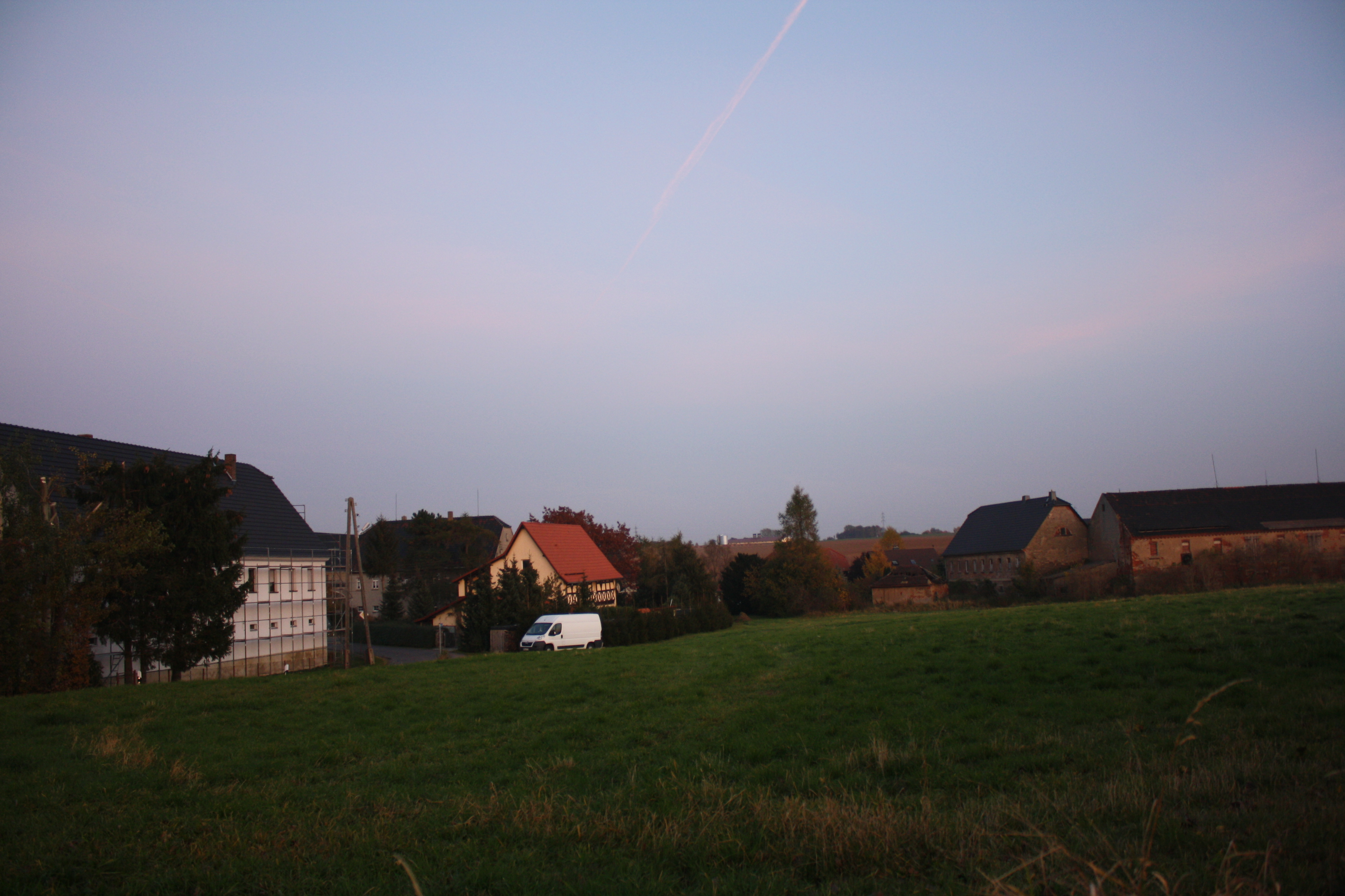 View over Altenburg-Greipzig in Thuringia